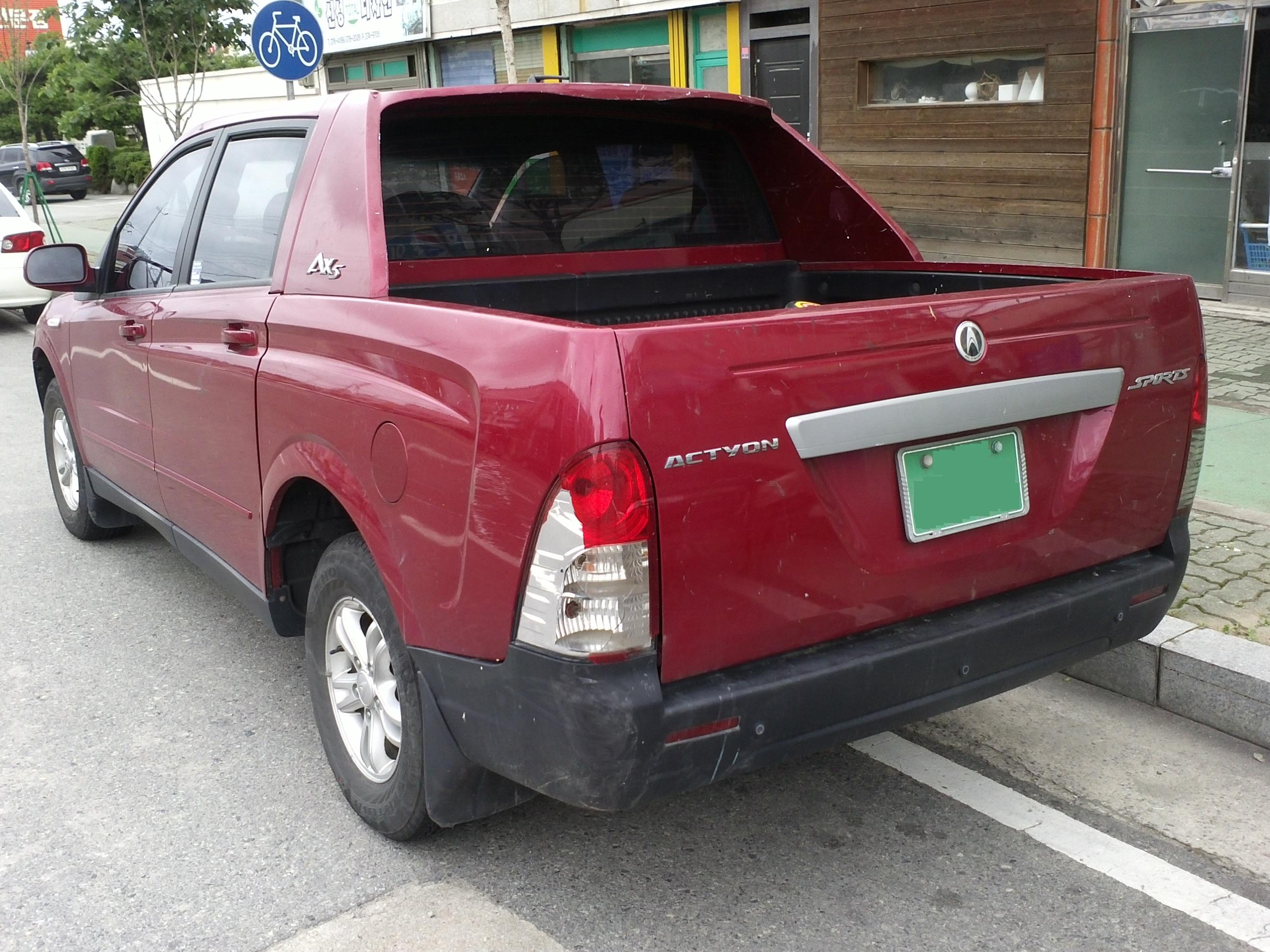 SsangYong Actyon Sports